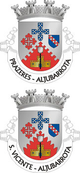 public insignia of two Portuguese minicipalities, Prazeres de Aljubarrota e Sao Vicente de Aljubarrot, together part of the Villa de Aljubarrota